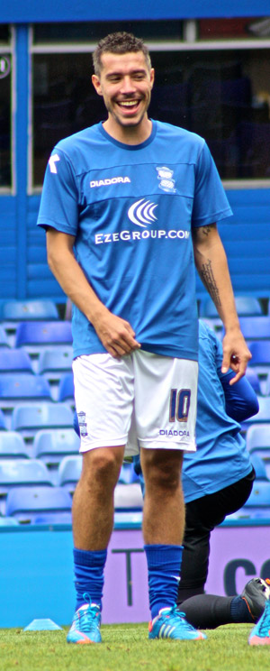 Photo of Darren Ambrose vs Antwerp.